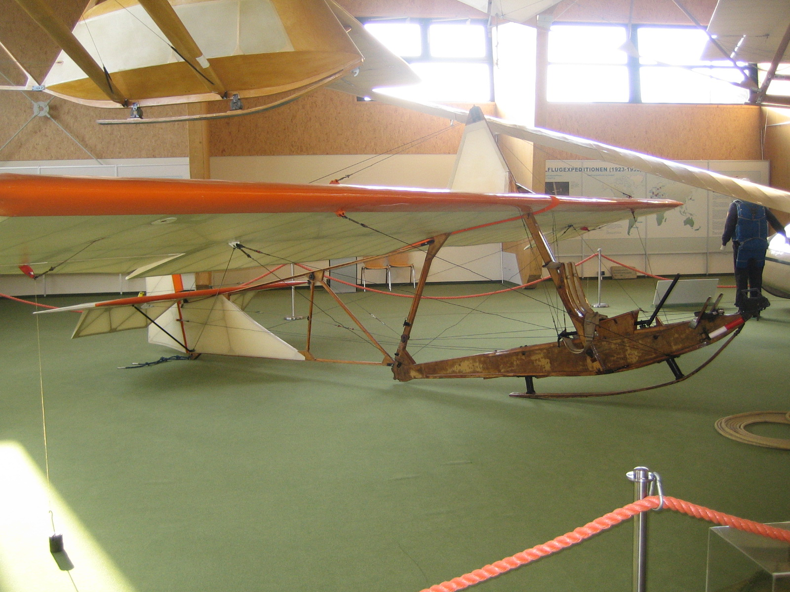 Schulgleiter SG 38, displayed at the Deutsches Segelflugmuseum